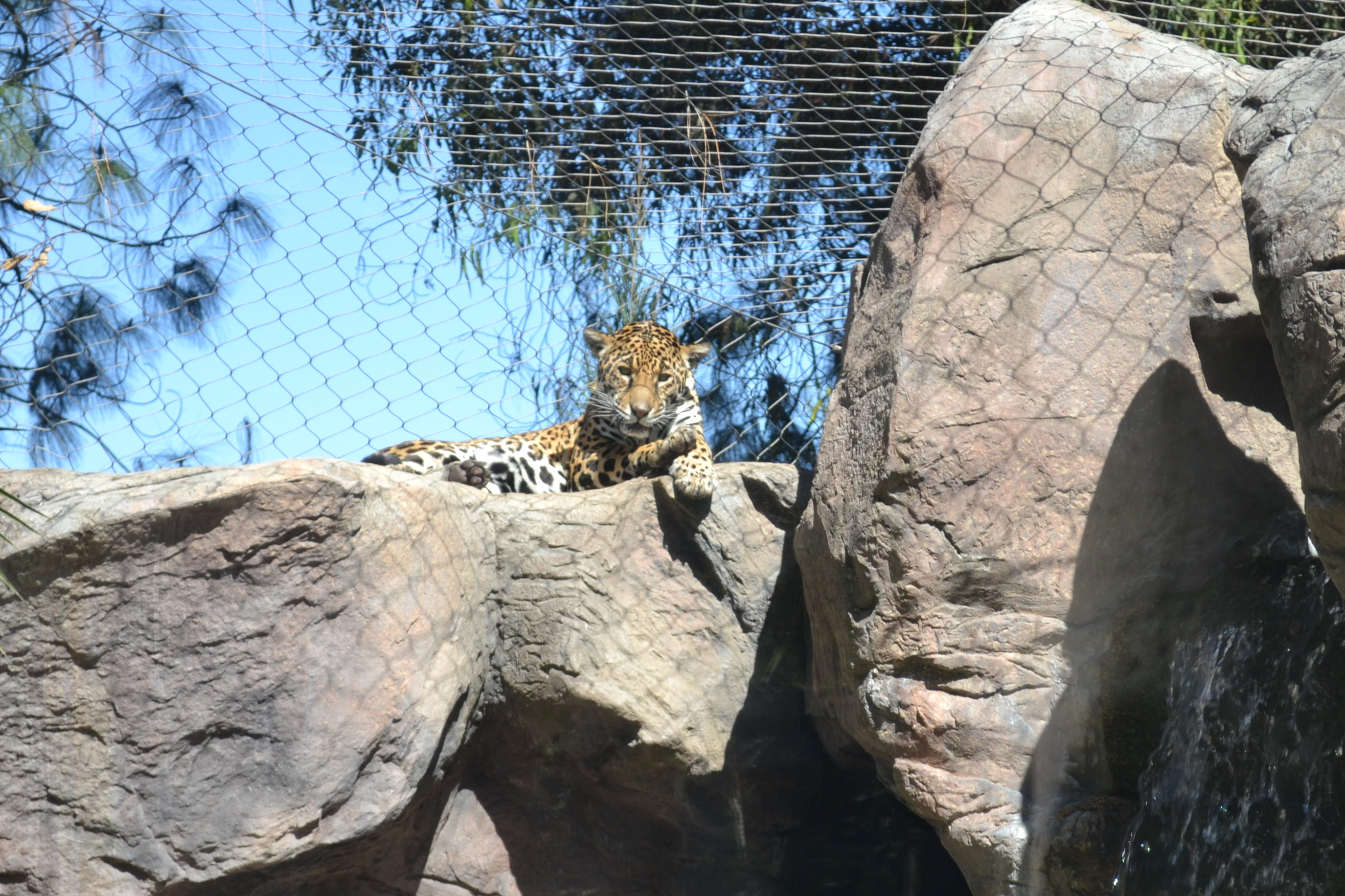 Jaguar at Happy Hollow Park & Zoo